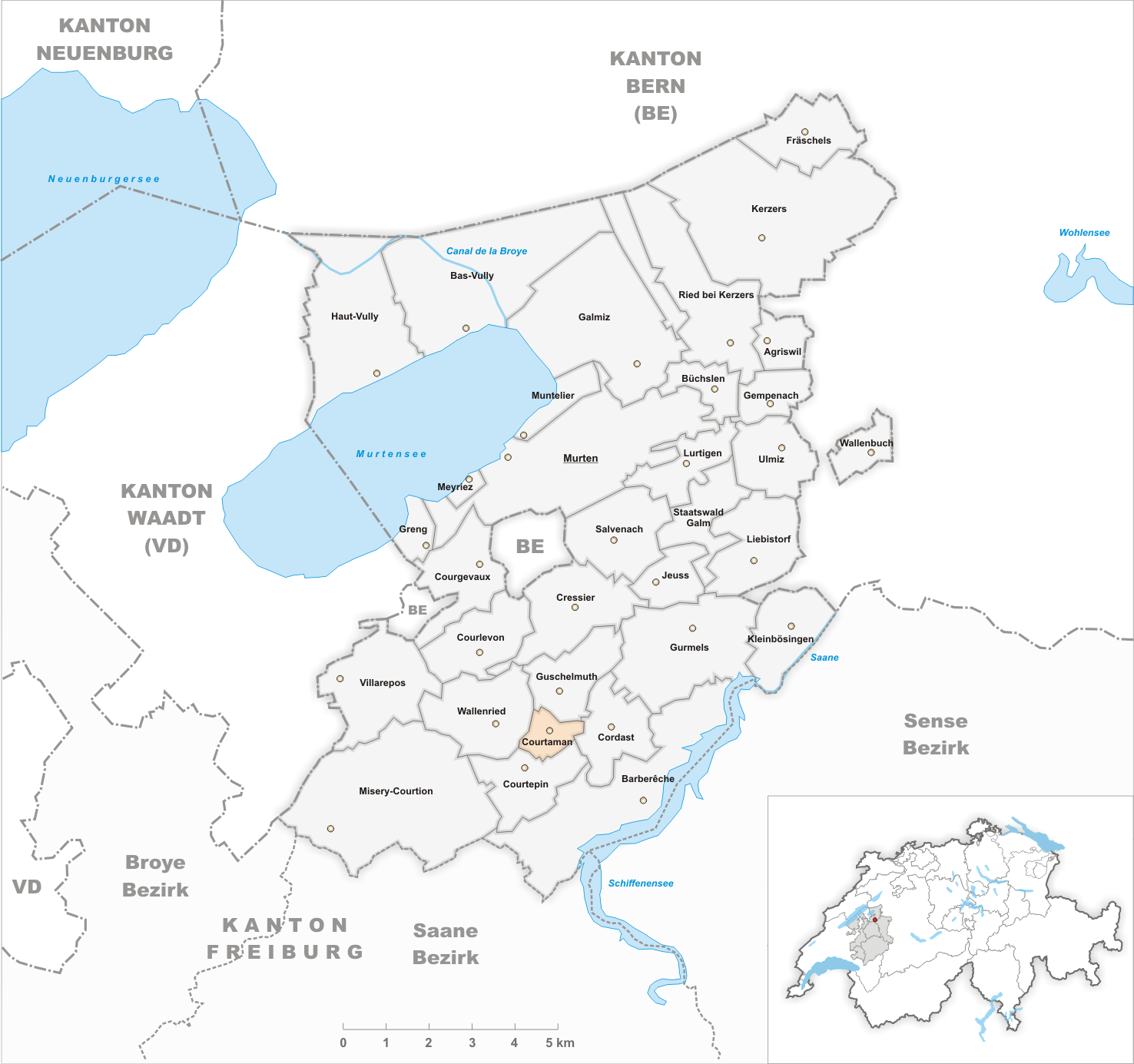 Municipality Courtaman Artist: Tschubby